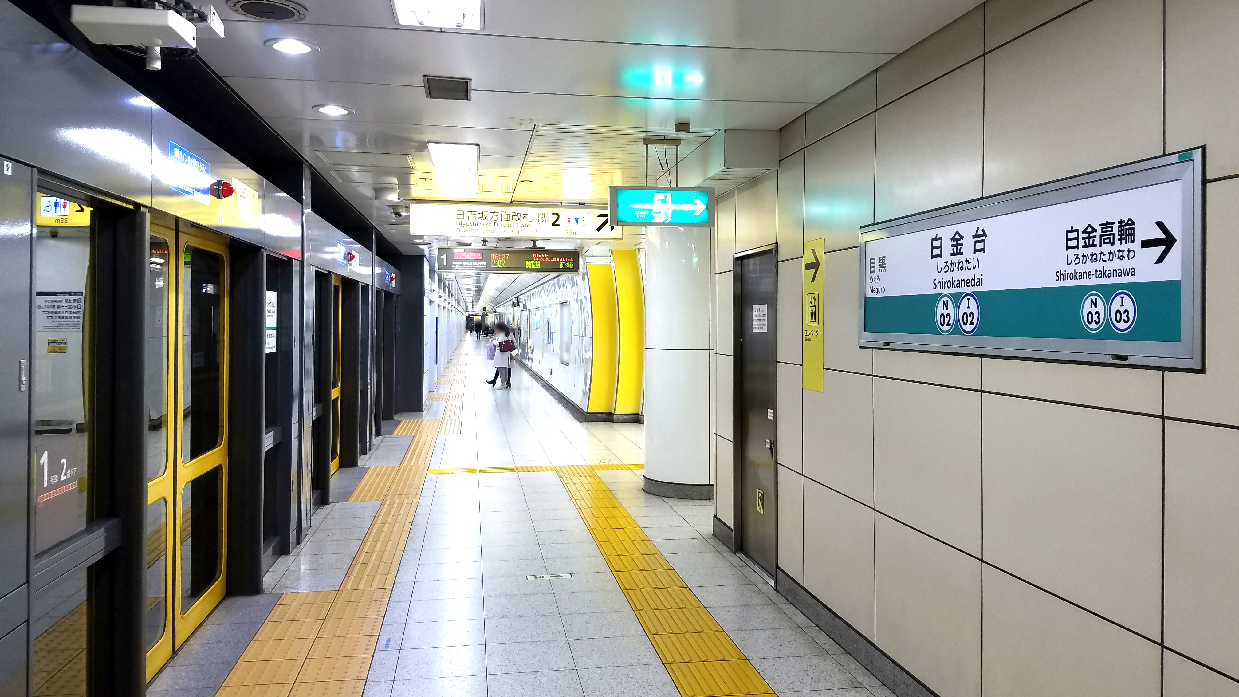 The Akabane-Iwabuchi-bound and Nishi-Takashimadaira-bound(no.1) platform at Shirokanedai Station on the Tokyo Metro Namboku Line and the Toei Mita Line in Minato city, Tokyo, Japan